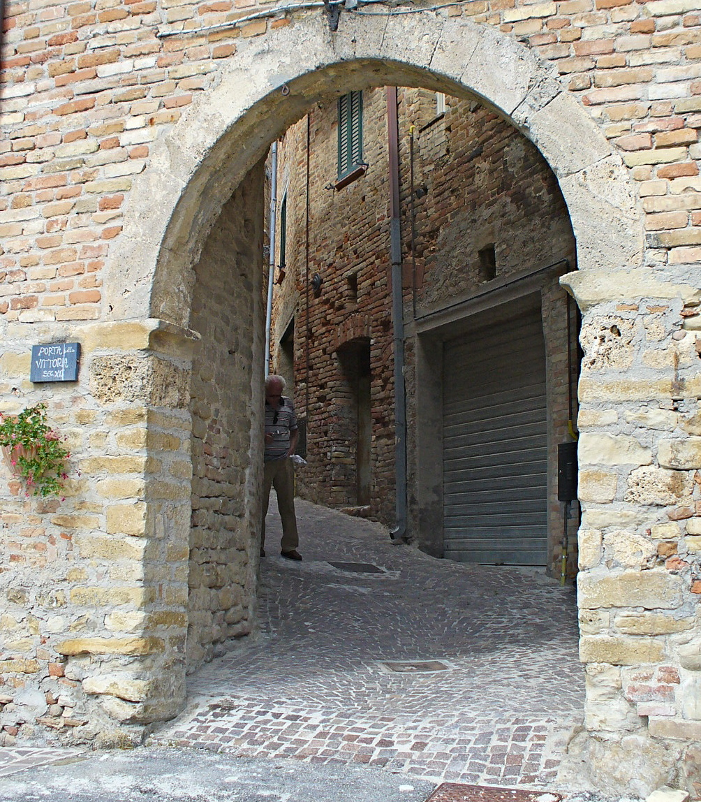 Montedinove (AP) - Victory Gate